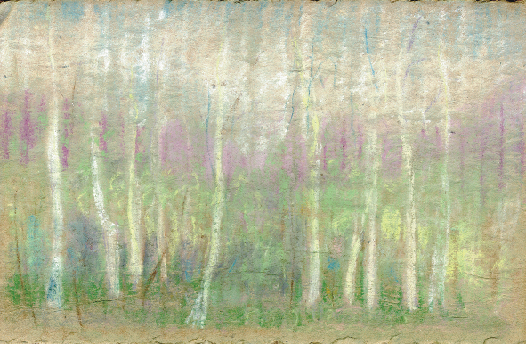 Drawing: "Autumnal grove 2". Media: Pastel. Size: 12X18,4